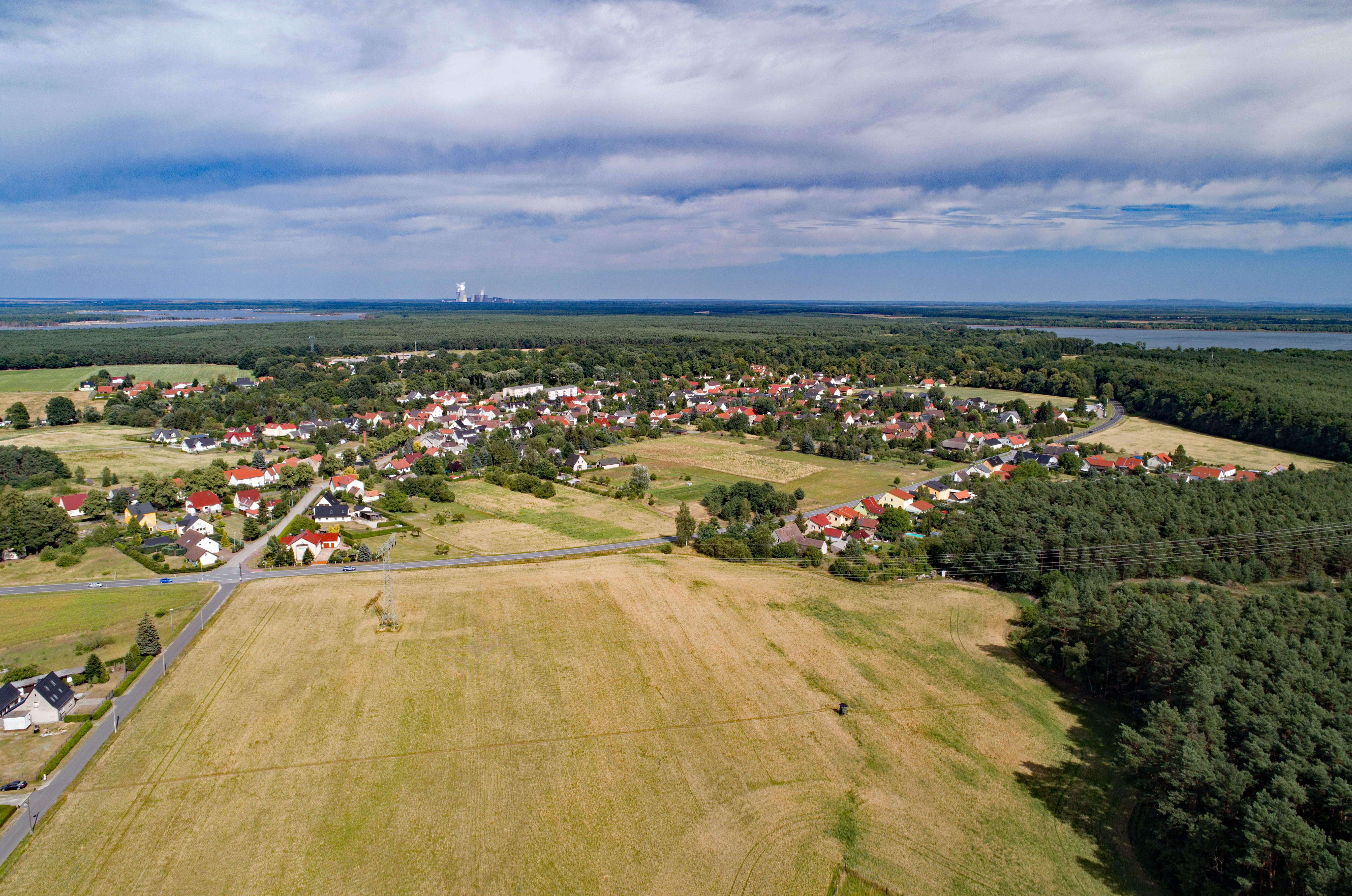 Weißkollm (Lohsa, Saxony, Germany) Hornjoserbsce: Powětrowy wobraz Běłeho Chołmca